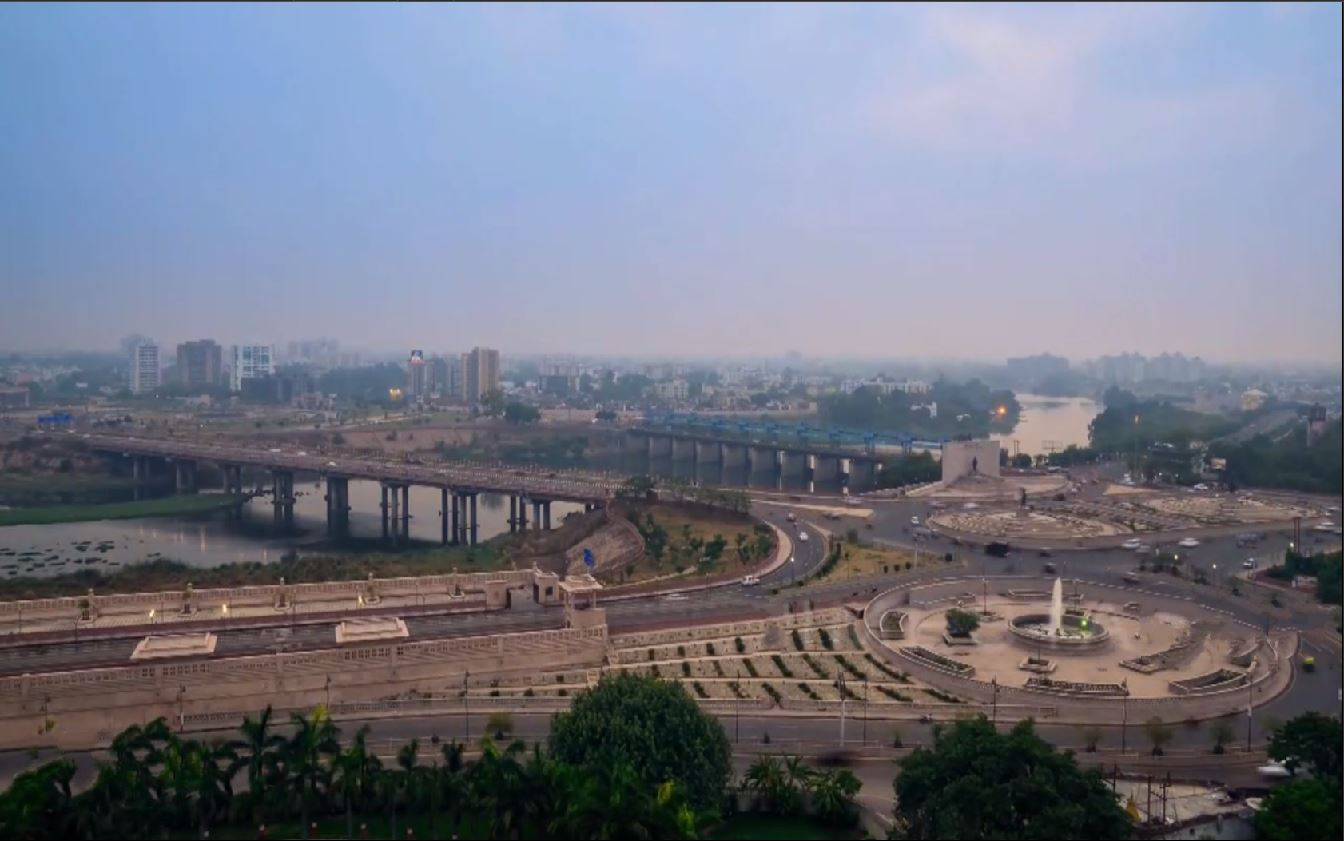 Downtown New Lucknow with Gomti River in the Middle